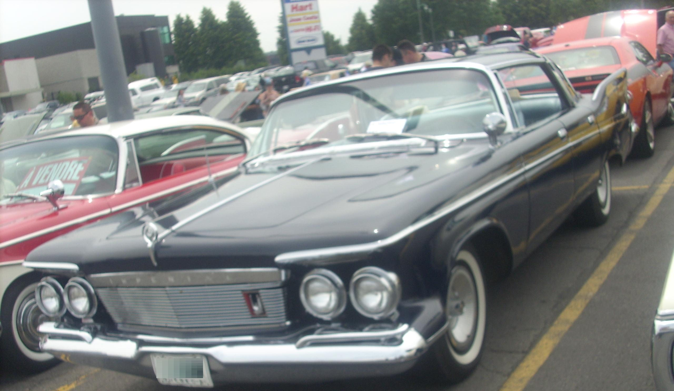 1961 Imperial photographed in Salaberry De Valleyfield, Quebec, Canada at Rassemblement Mopar Valleyfield 2010.